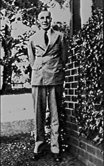 Portrait of Wing Commander Archibald Robert Tindal, RAAF, in civilian clothes. He was killed while defending the RAAF aerodrome at Darwin on 19 February 1942. He is believed to have been the first fatal RAAF casualty in combat on the Australian mainland.